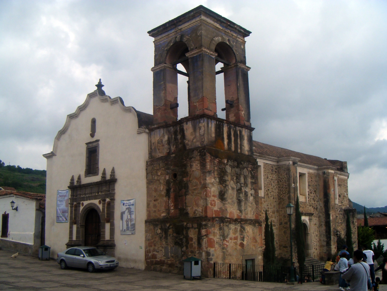 A church in Tapalpa, Jalisco, Mexico